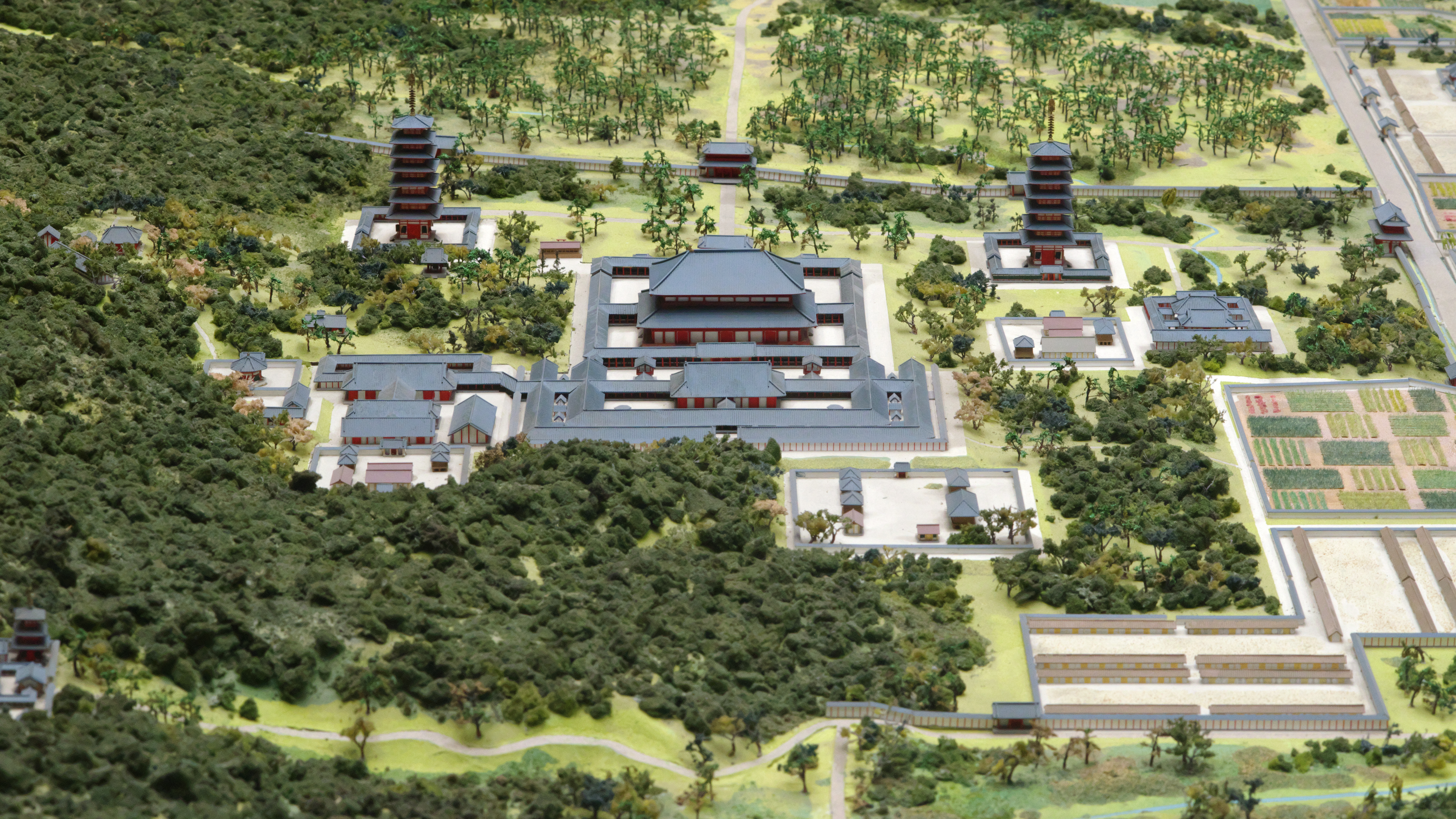 A model of the garan of Todaiji, seen from the north side, a part of 1/1000 scale model of Heijokyo held by Nara City Hall.